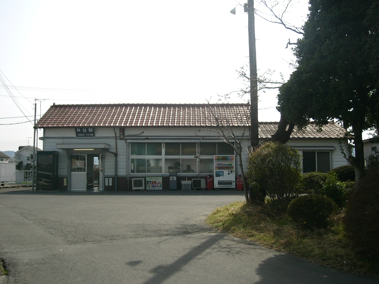 Tansho Station